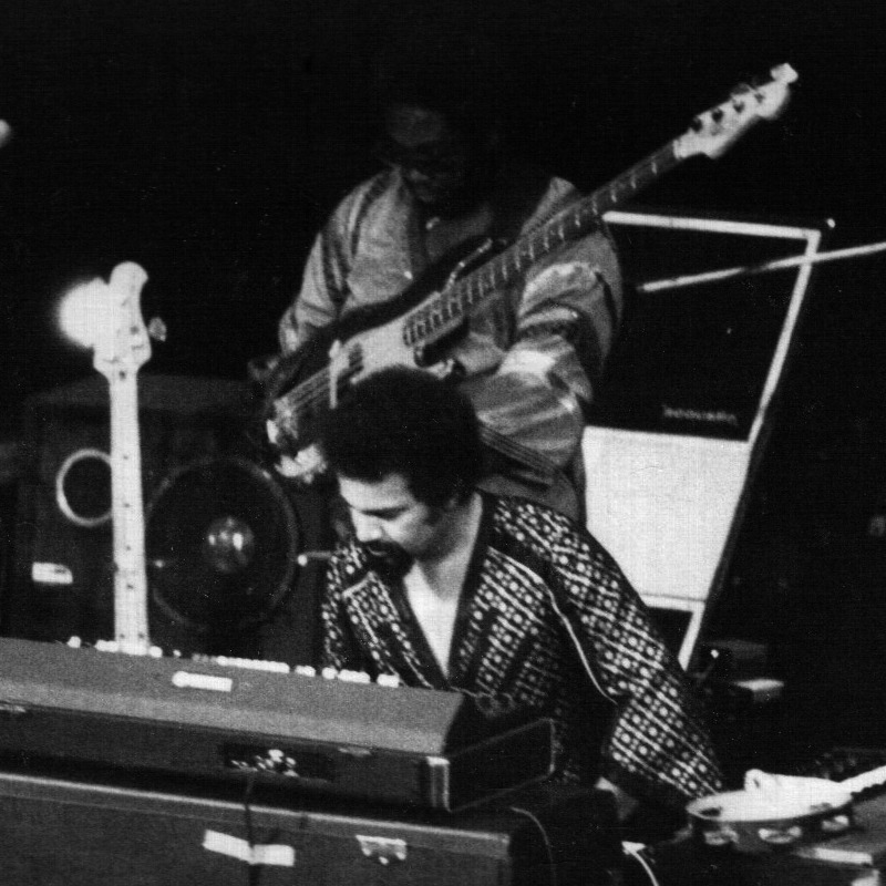 American pianist, keyboard player and jazz composer Joe Sample in Paris, France.